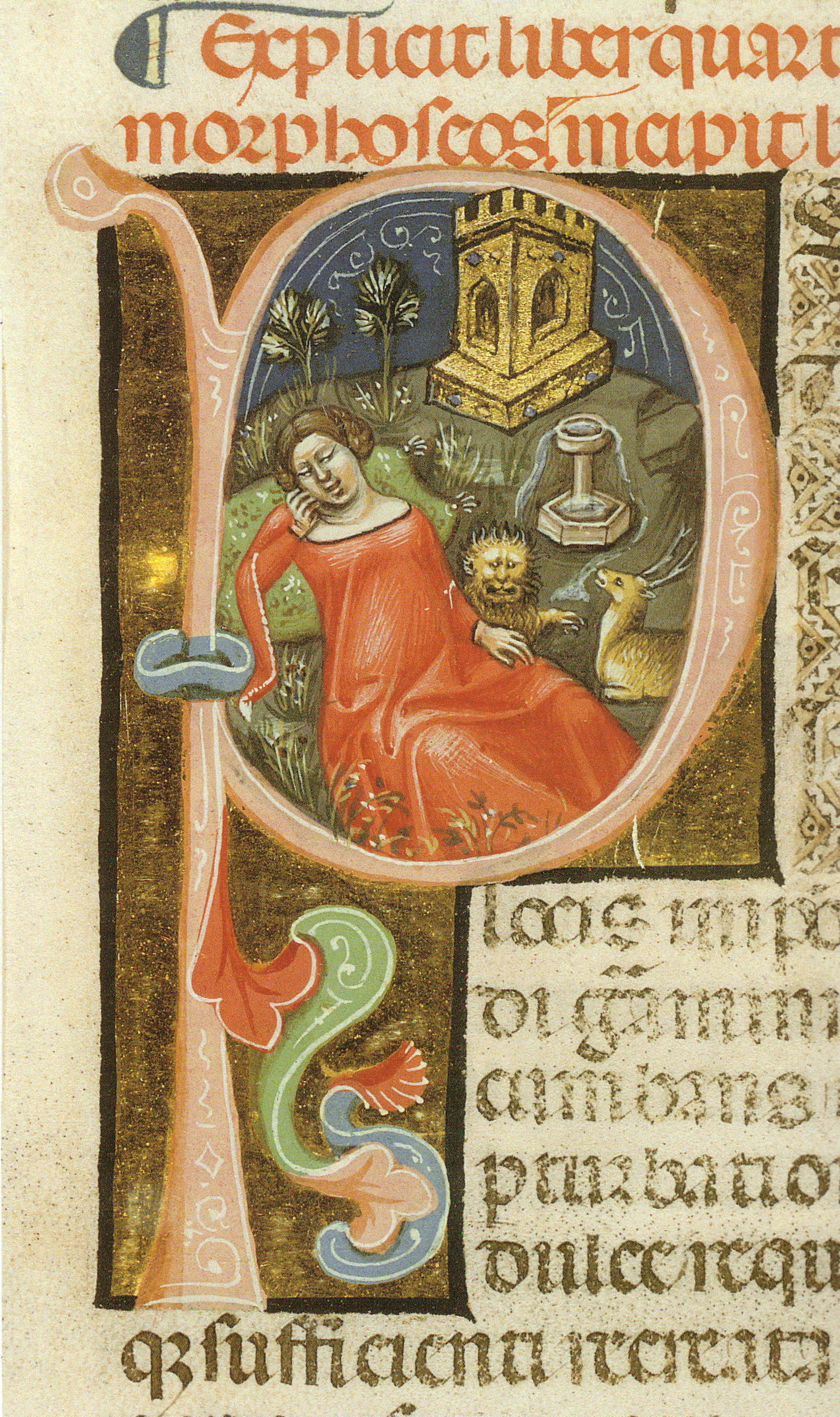 Psyche in the Garden of Amor, illustration of Apuleius Metamorphoses c. 24. Manuscript Vat. Lat. 2194 in the Biblioteca Apostolica Vaticana in Rome.